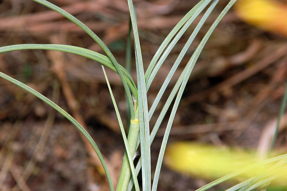 Spinifex longifolius, known from Australia, photographed in the Botanical Garden Berlin, Germany